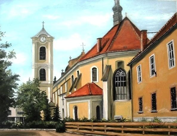 Painting of Margit Gréczi, Hungarian artist, Szent Bertalan temple in Gyöngyös